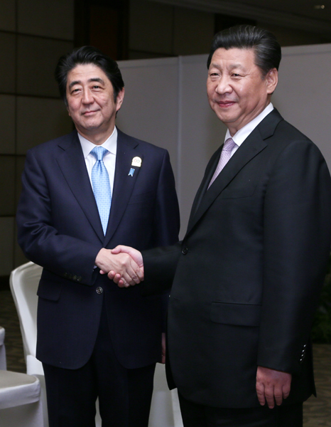 Japan-China Summit Meeting at Jakarta on April 22, 2015